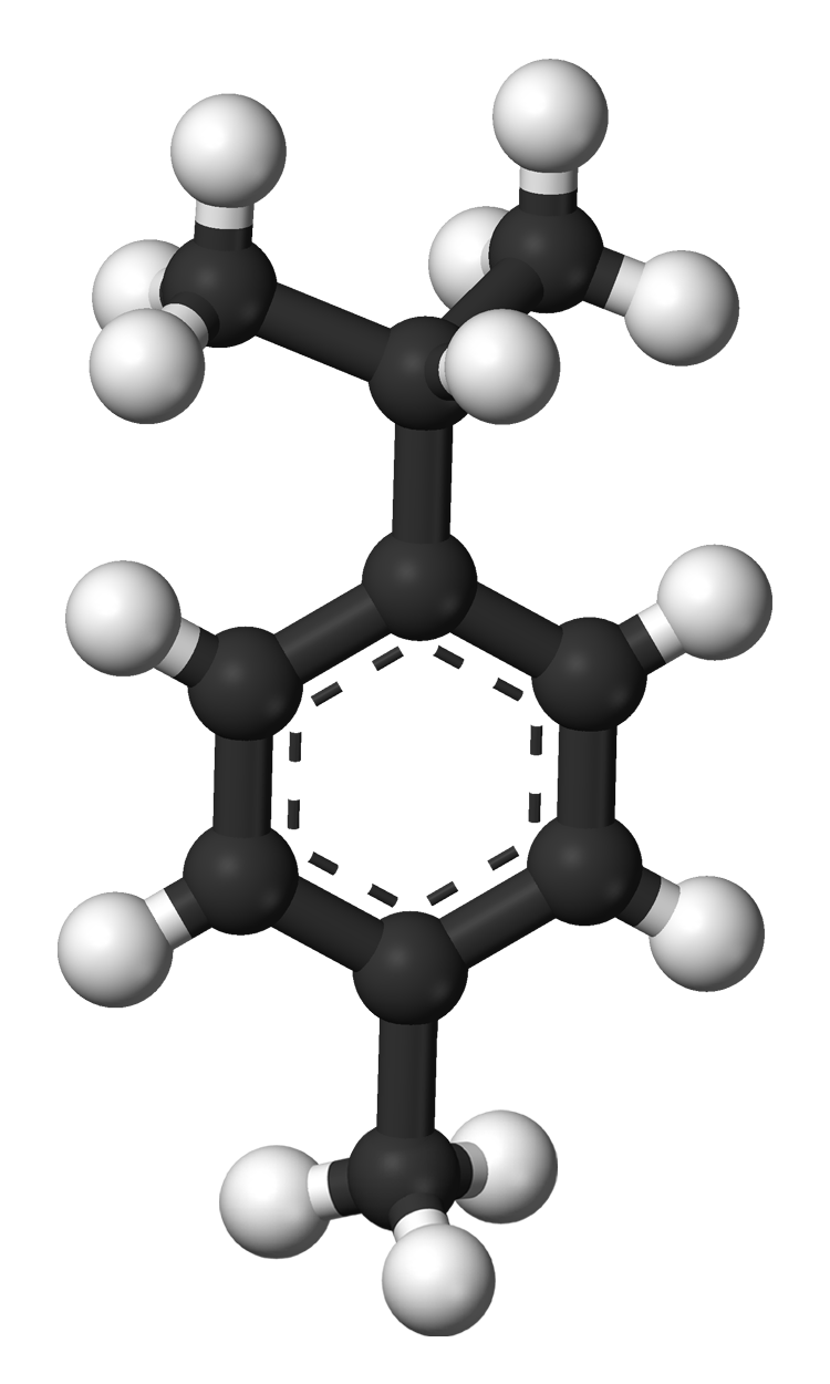 Ball and stick model of the cymene molecule.